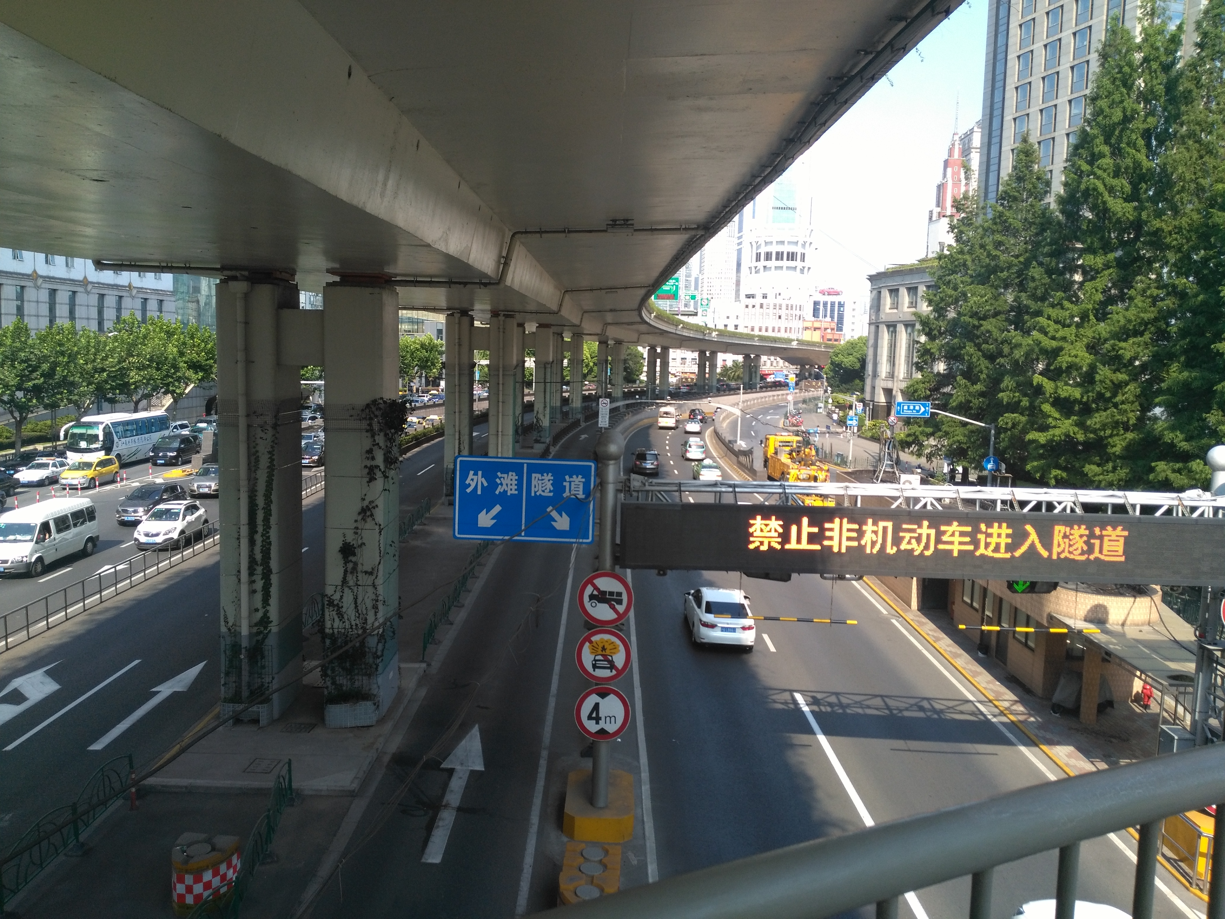 The Entrance of South Tunnel, East Yan'an Road Tunnel